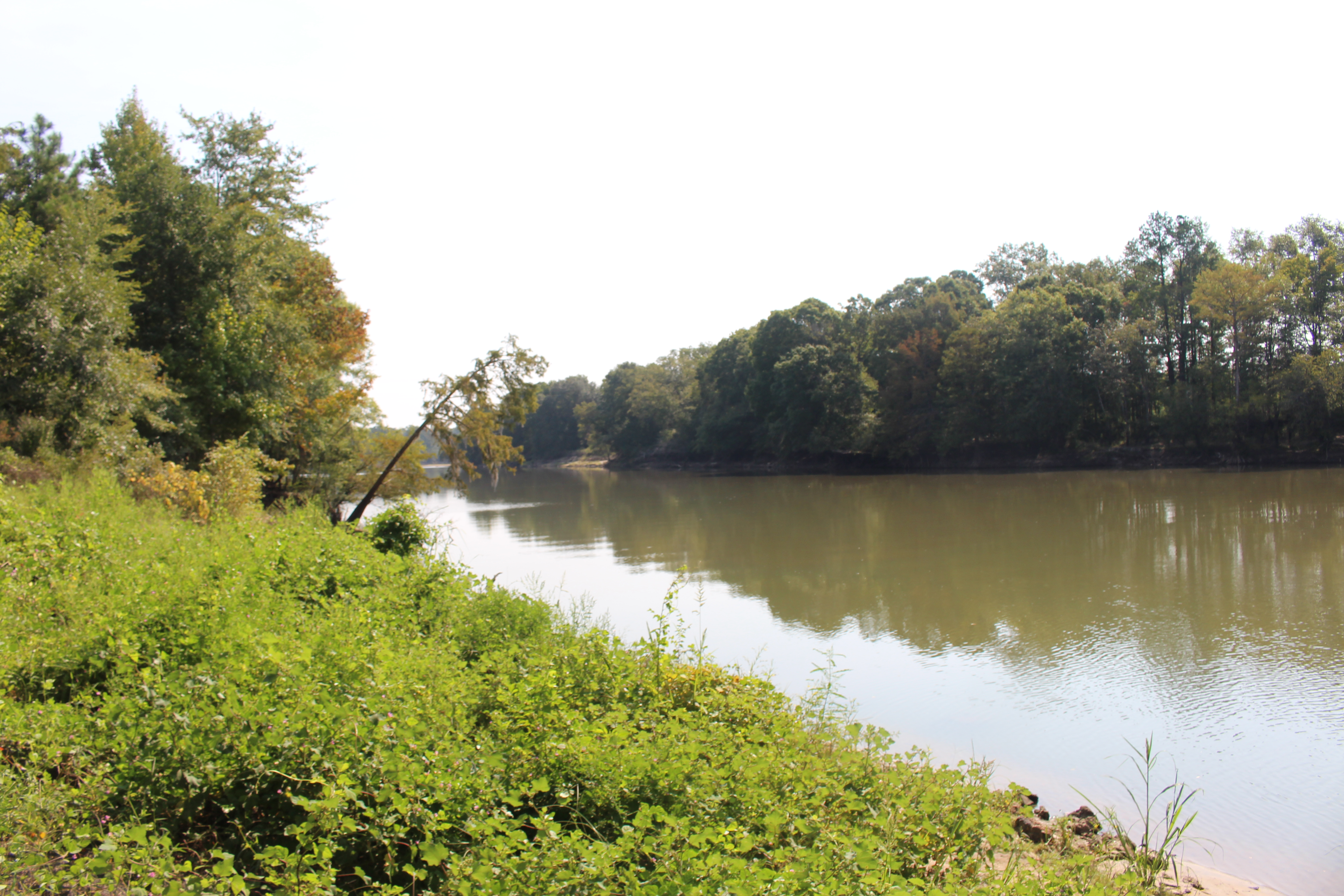 Ocmulgee River, Telfair County, Georgia